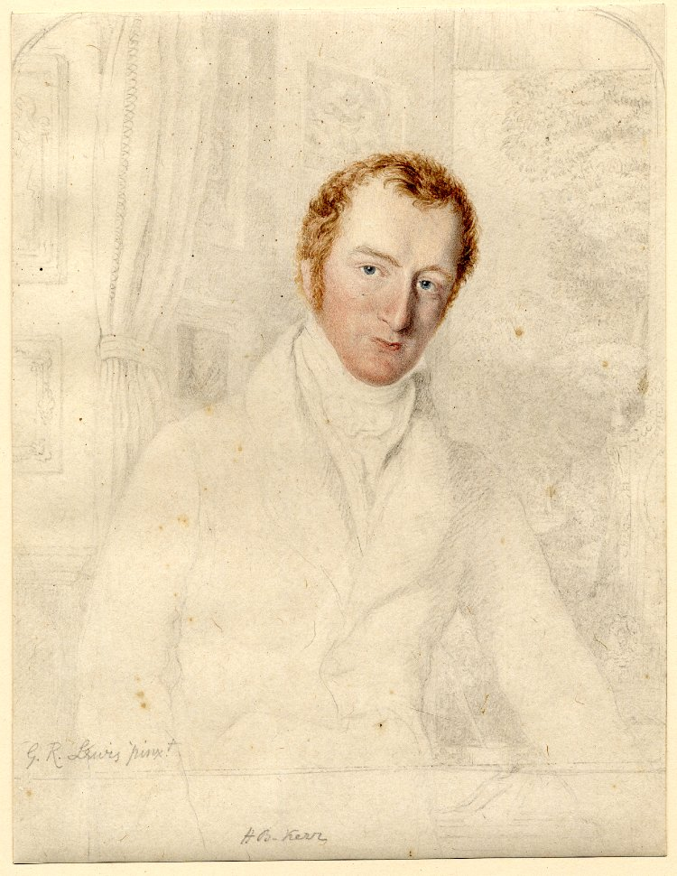 Drawing with watercolour of Charles Henry Bellenden Ker (1785?–1871), English barrister.